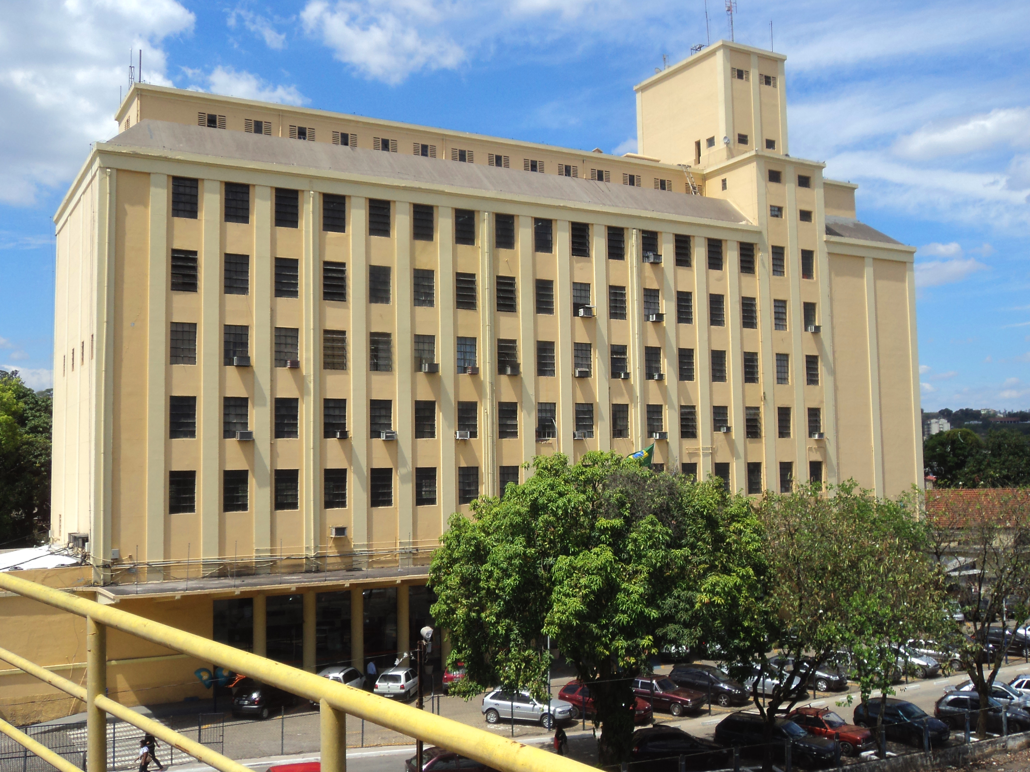 View of city council, in Barra Mansa, Rio de Janeiro, Brazil.